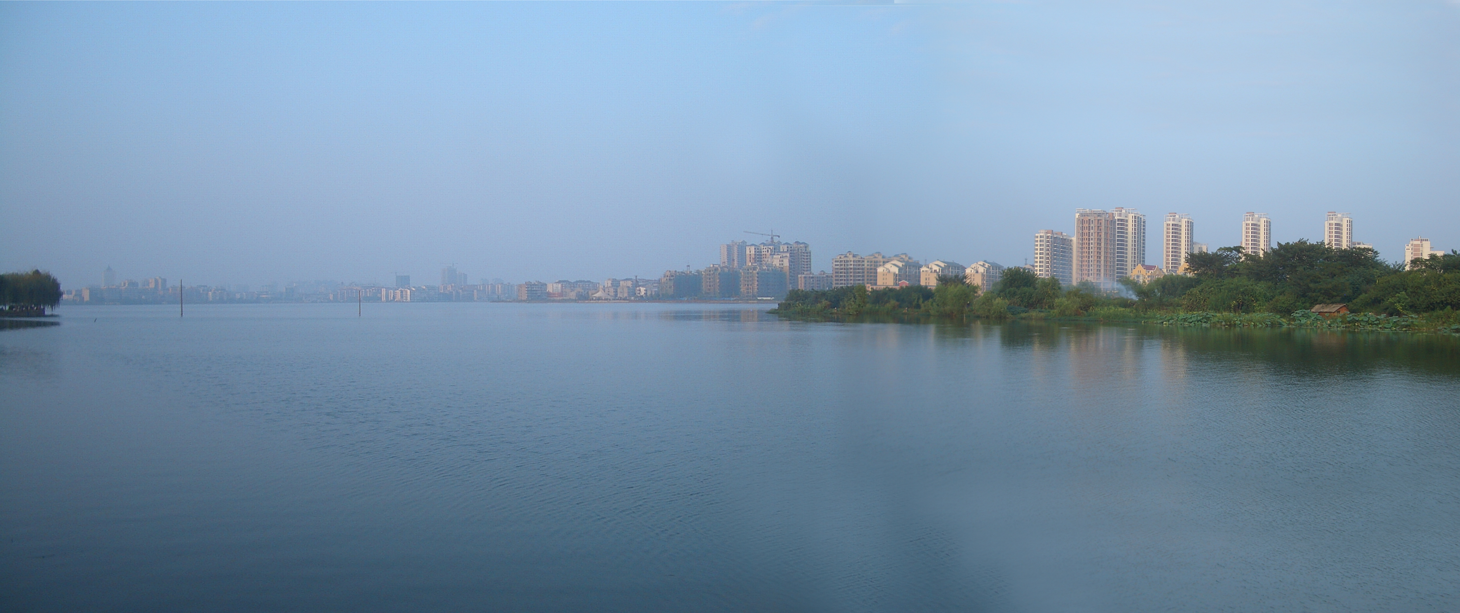 A lake, surrounded by parks, in central Ezhou.